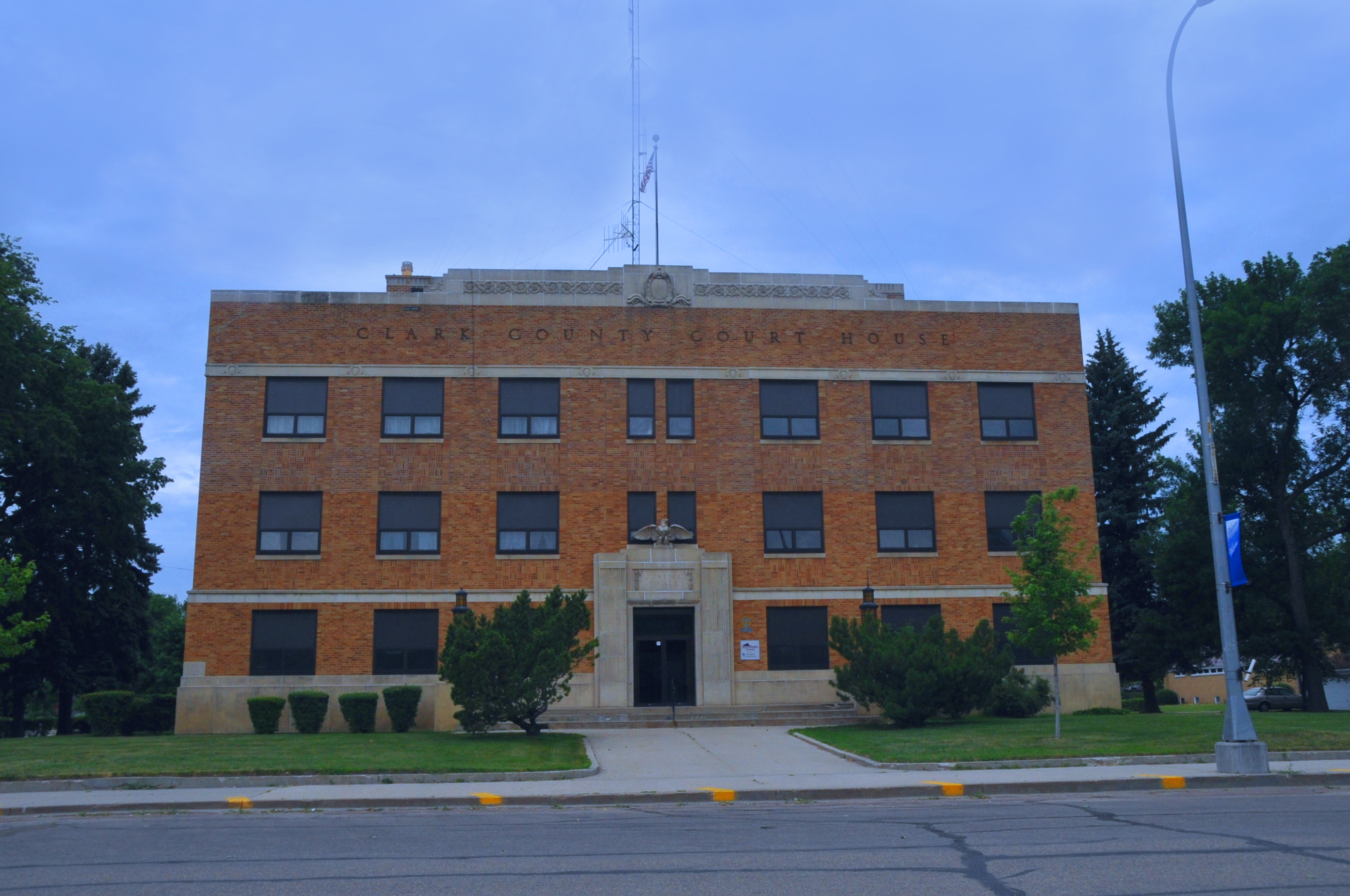 A 1934 COURTHOUSE, WHICH IS BLOCK-SHAPED, BUT IS ACTUALLY AN ATTRACTIVE DEPRESSION ERA COURTHOUSE.